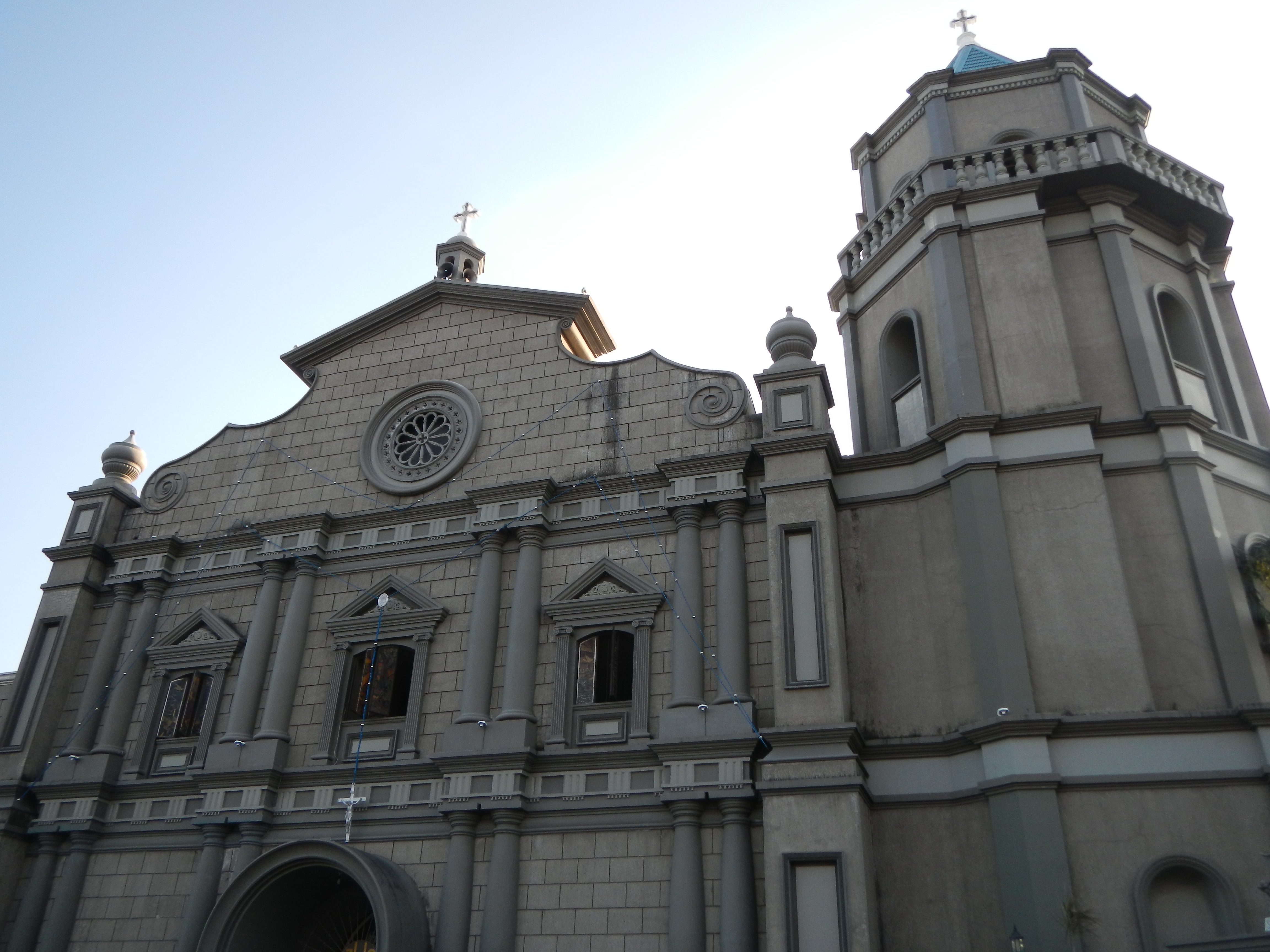 Orani Church - Our Lady of the Most Holy Rosary Parish Church (Nuestra Señora del Rosario Parish Church / Orani Church / Church of Orani)[1]II. Vicariate of St. Dominic de Guzman, Roman Catholic Diocese of Balanga[2][3] [4][5]Diocese of Balanga(Dioecesis Balangensis) Suffragan of San Fernando, Pampanga Created: March 17, 1975. Canonically Erected: November 7, 1975. Comprises the whole civil province of Bataan. Titular: St. Joseph, Husband of Mary, April 28. Bishop Most Reverend Ruperto Cruz Santos, DD[6][7] Parish Priest, Fr. Santos S. Detablan, assisted by Fr. Jesus R. Navoa, Catholic population, 33, 957[8] Church of Orani - Orani became an independent missionary center in 1714. The church and convent of Orani, repaired in 1792 and 1836, were badly damaged by the earthquake of September 16, 1852. They were built and improved under the supervision of the Rev. Bartolome Alvarez del Manzano, O.P. in 1891. They were destroyed by fire on March 16, 1938 which razed about three fourths of Orani including the town hall, the Tercena, former Bataan High School and later Orani Elementary School building. The church was reconstructed in September 1938. [9] Bataan (Region III) House of Worship Status: Level II - With Marker Marker Date: 1939 Site Orani church façade,Orani, Bataan installed by Historical Research and Markers Committee[10]Coordinates: 14°48'2"N 120°32'8"E Orani, 2112 Bataan[11][12]